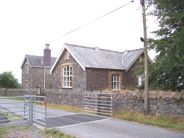 Cofadail School. Cofadail School, Trefenter built in 1877 and had accommodation for 105 boarders.